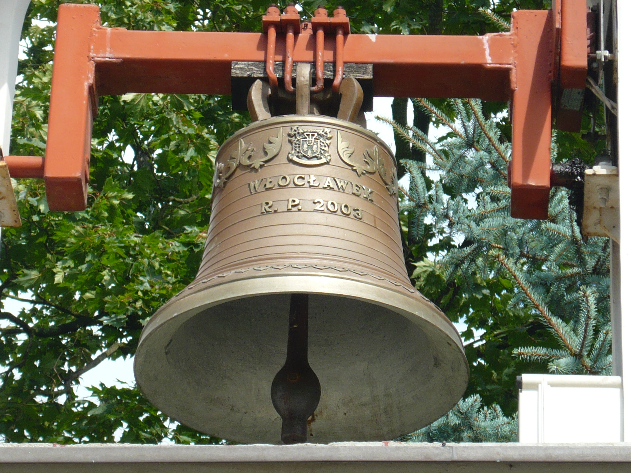 Close view for the bell in Włocławek's graveyard.